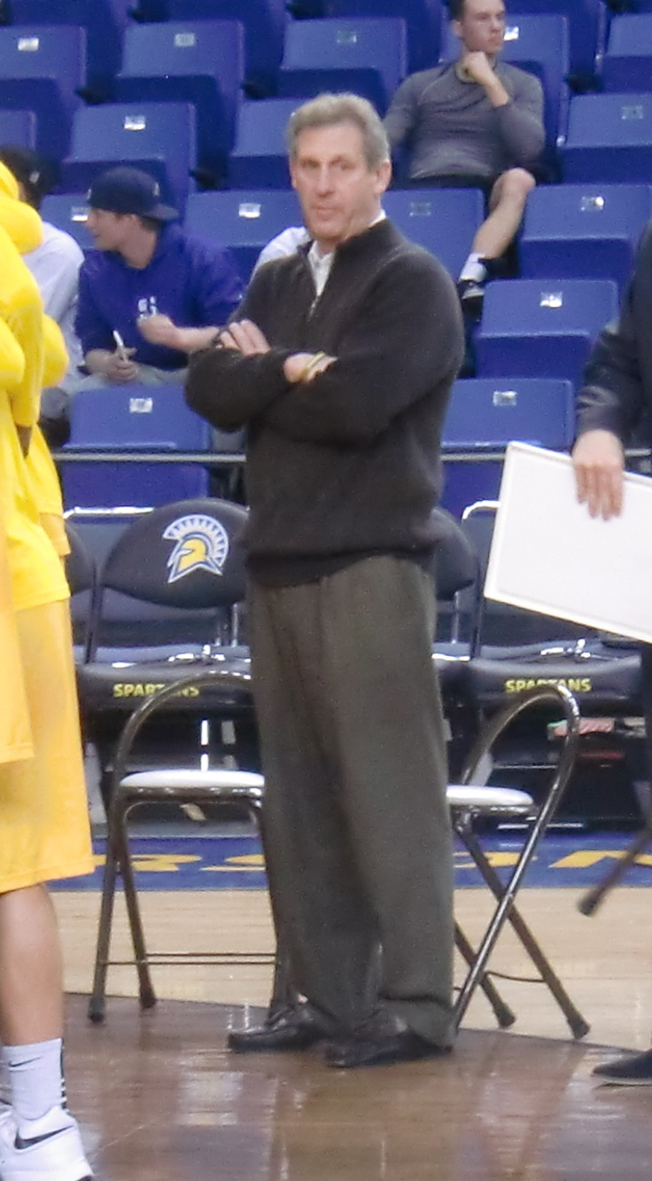 University of Wyoming men's basketball coach Larry Shyatt stands on the court before Wyoming's game at San Jose State on Jan. 13, 2016.